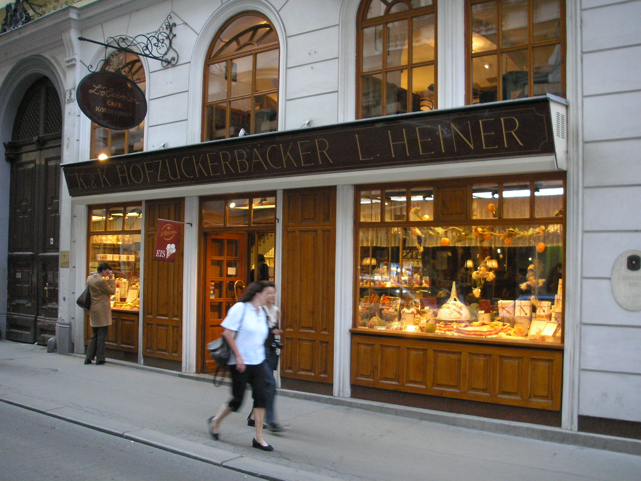 The imperial and royal purveyor to the court L. Heiner cafe in Vienna at Wollzeile 9.